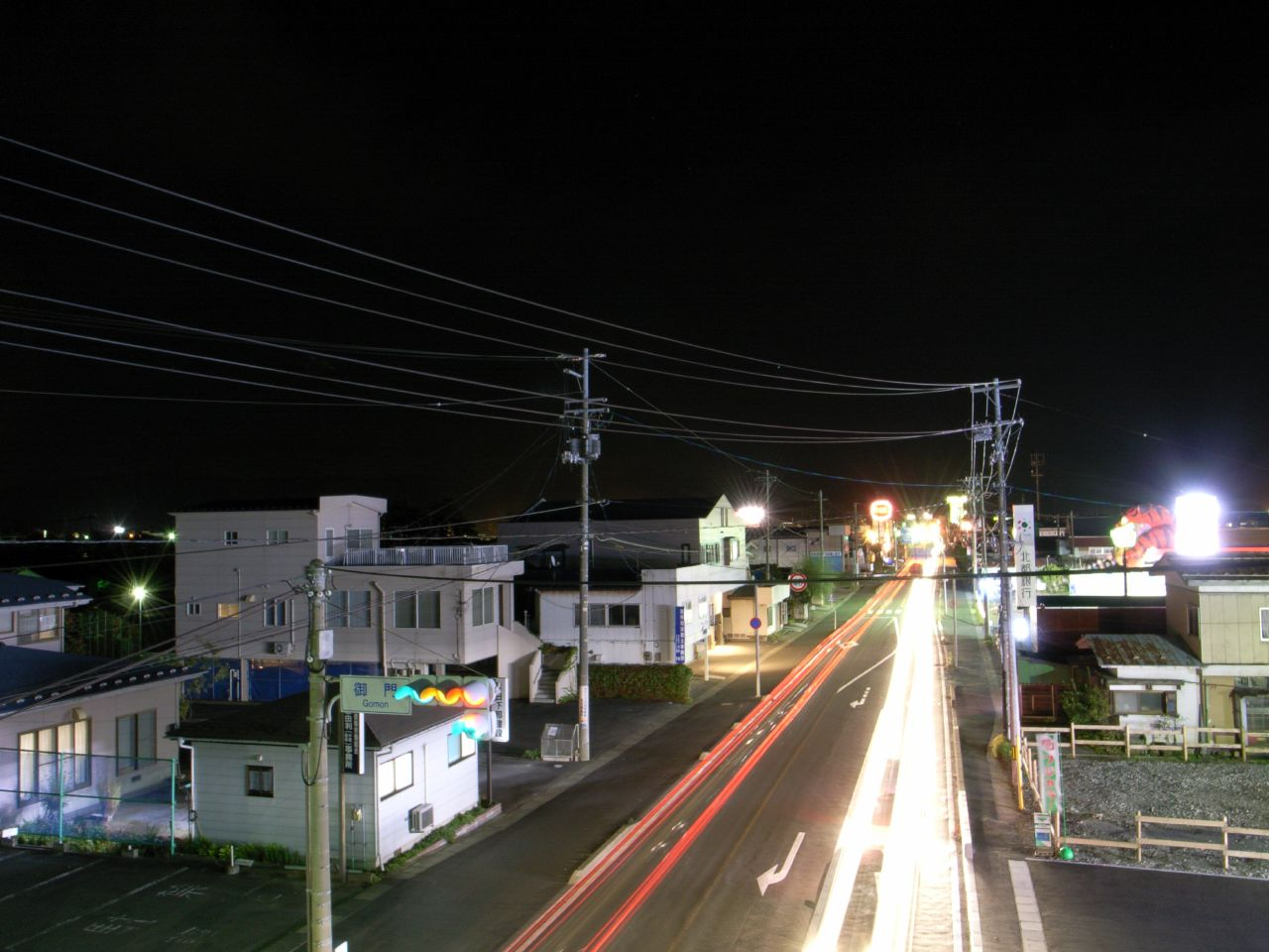 Japanese Route 107 in Yurihonjo, Akita